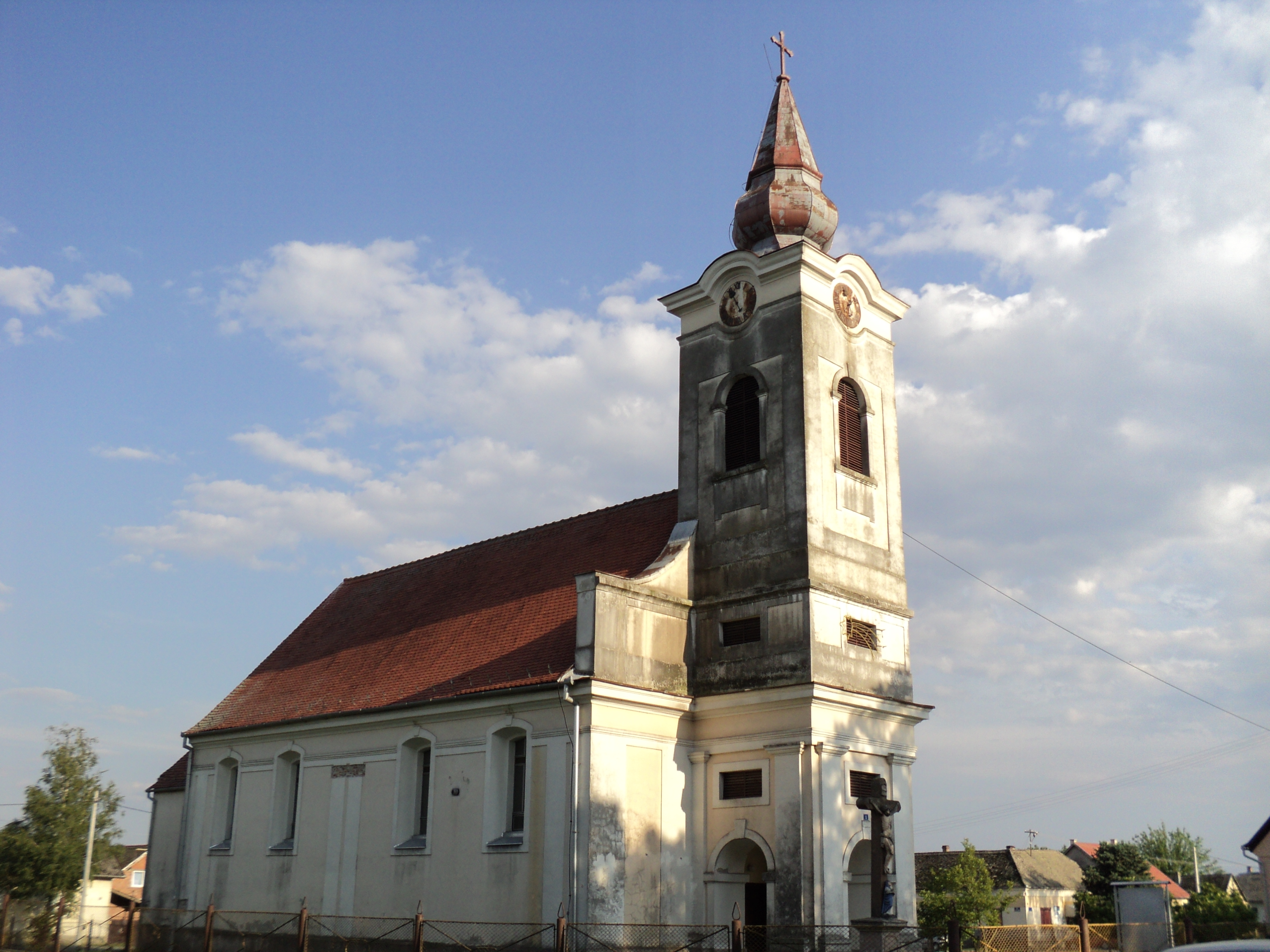 Church of St. Peter and Paul in Marijanci.